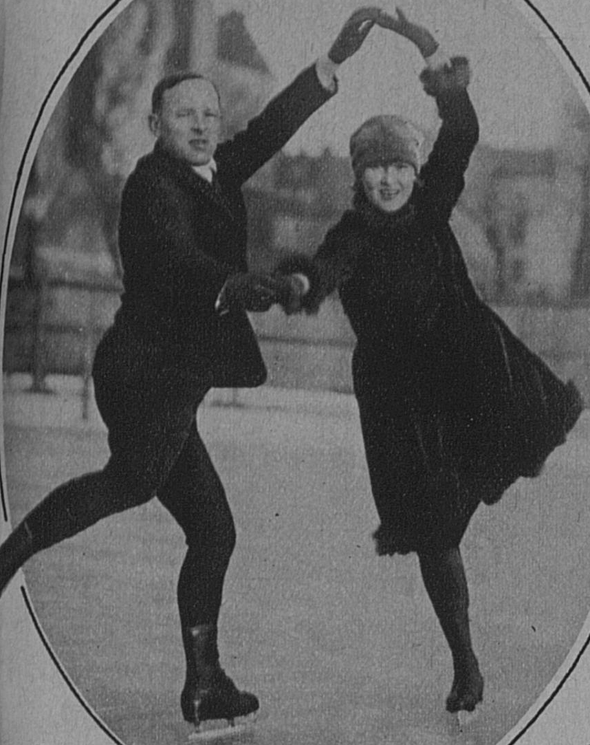 Edvard Linna and Olga Saario, pair skating 1927 Finnish champions